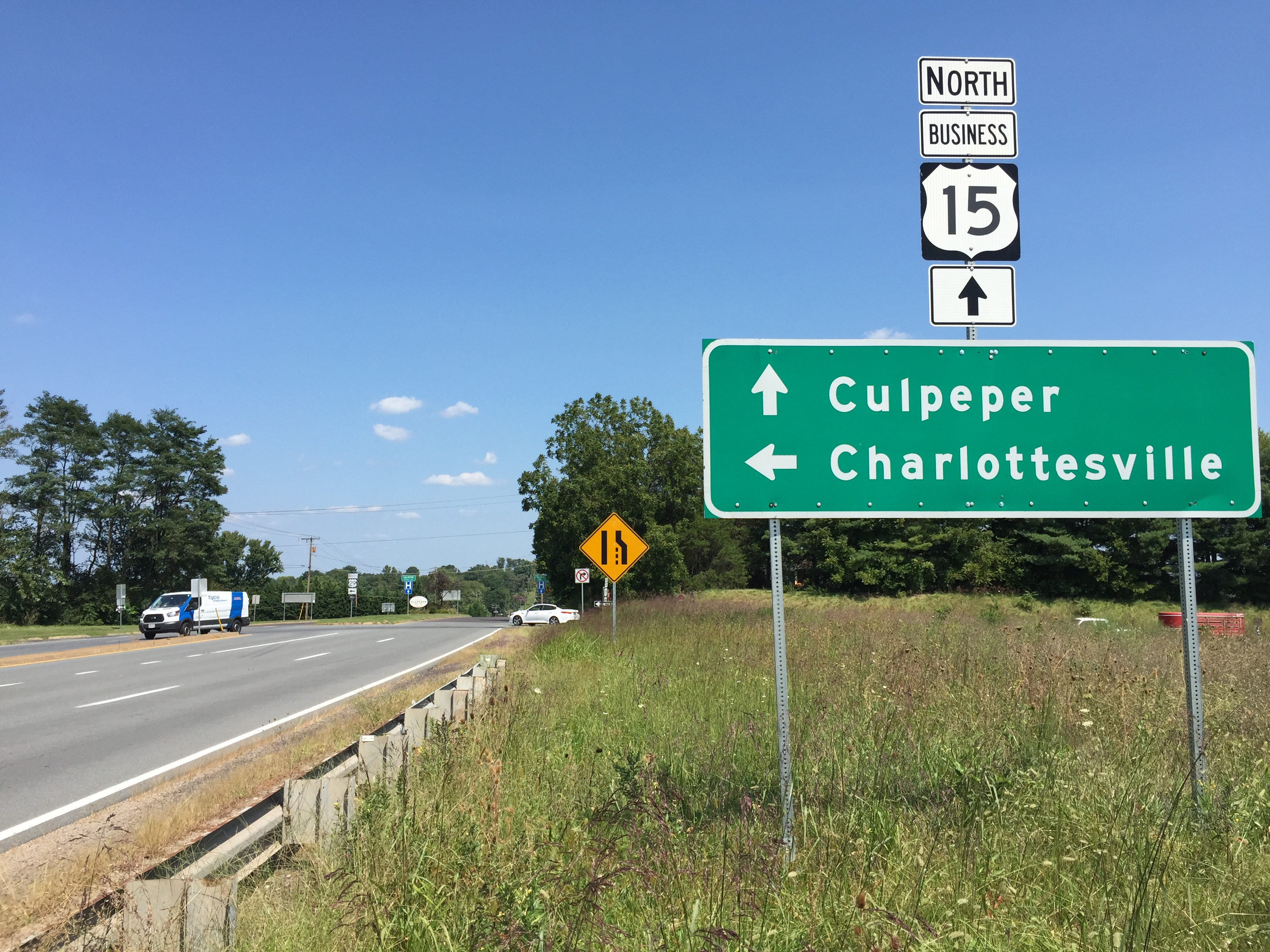 View north along U.S. Route 15 Business (Orange Road) at U.S. Route 15 (James Madison Highway) and U.S. Route 29 (James Monroe Highway), just south of Culpeper in Culpeper County, Virginia